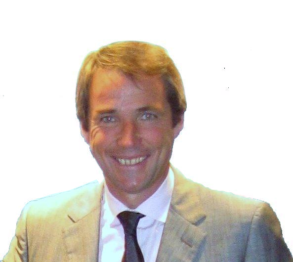 Alan Hansen, Scottish footballer.